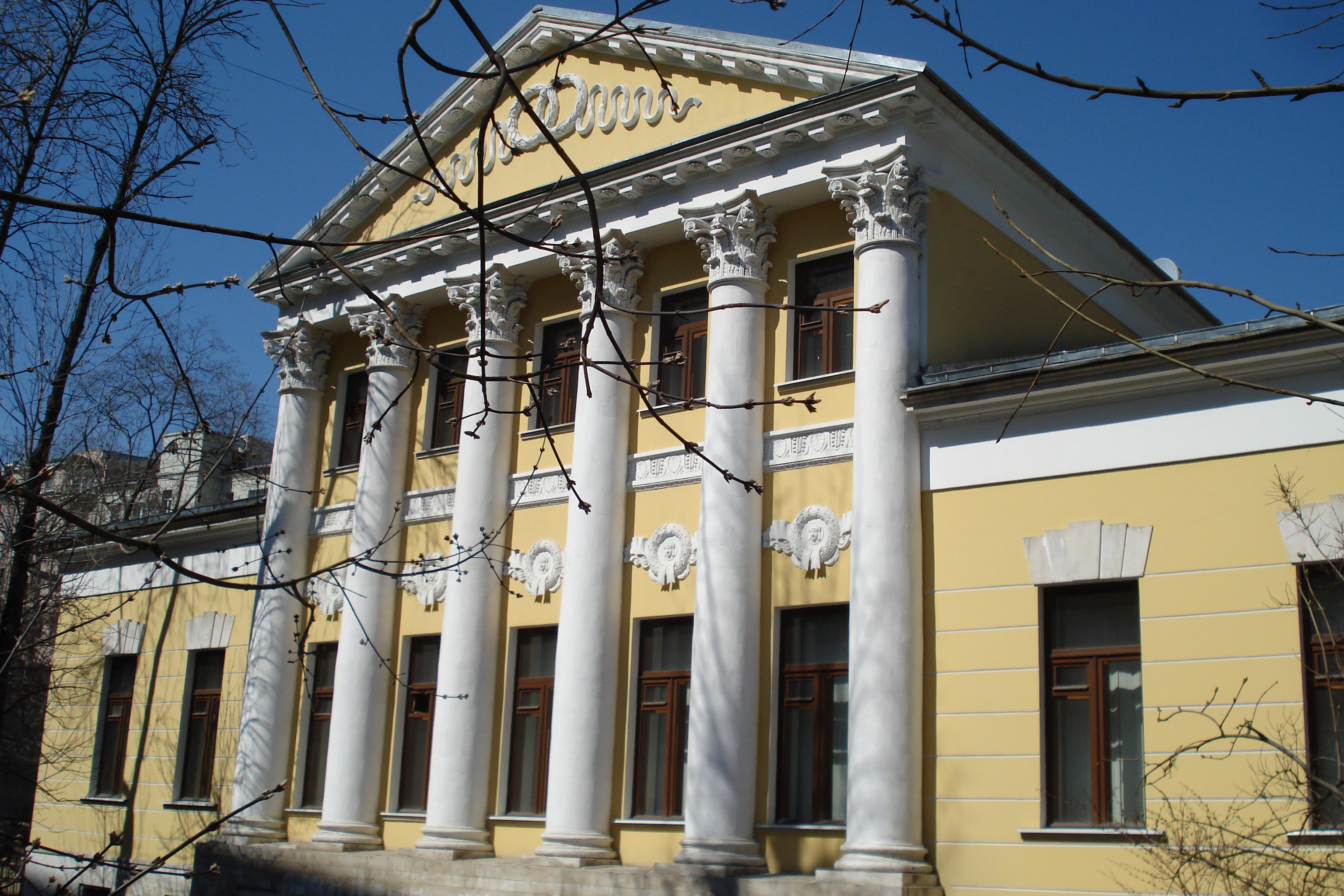 Former house of Aksakovs' Family in Moscow (Sivtsev Vrazhek 30). Empire palace built in 1820-1823. Novadays branch of the State Literary Museum